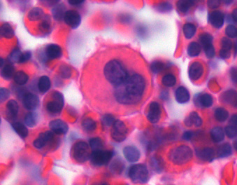 Megakaryocyte